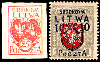 Stamps of Central Lithuania, 1920.